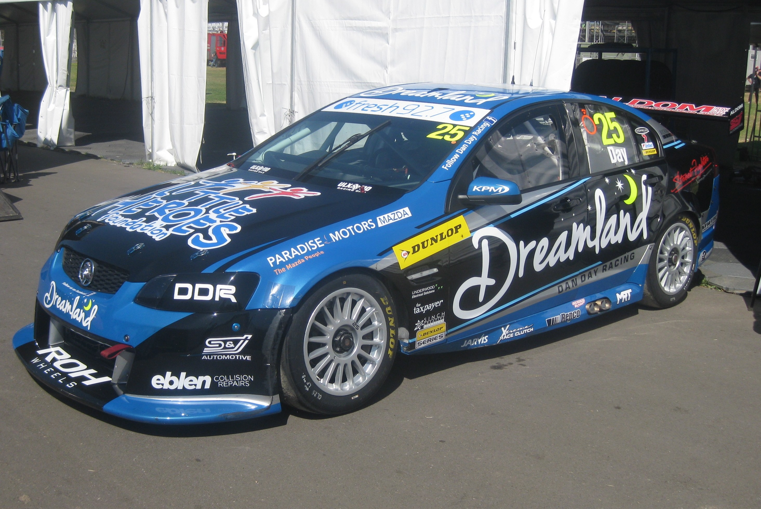 Holden VE Commodore of Dan Day. Round 1, 2014 Dunlop Series, Adelaide Parklands Circuit.